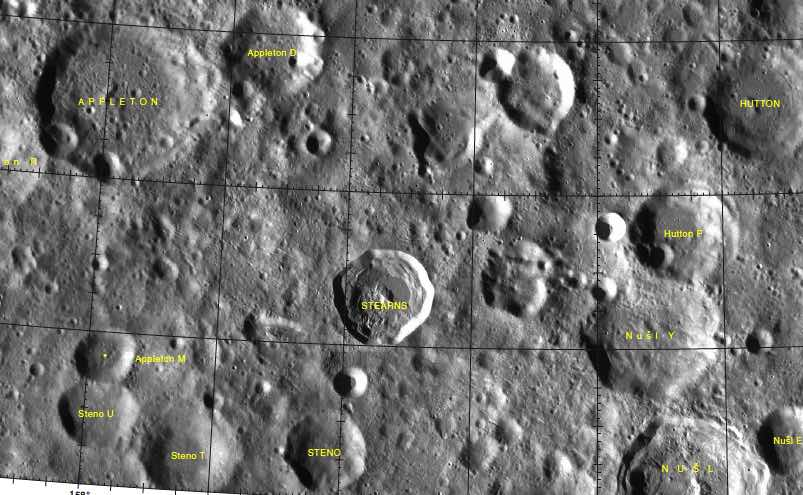 Part of the chart LAC-32